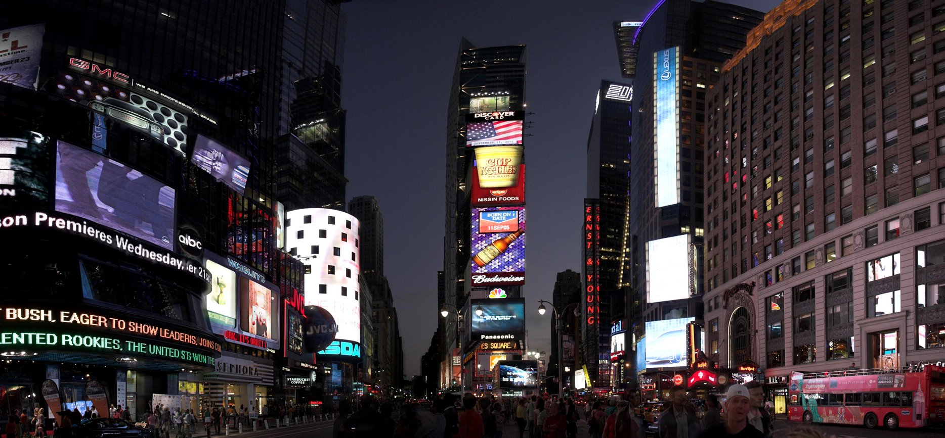 new york city - times square panoramic